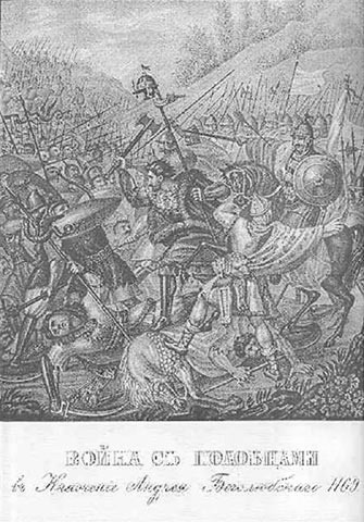 Grand Duke Andrei Bogolyubsky. War with Polovtsy